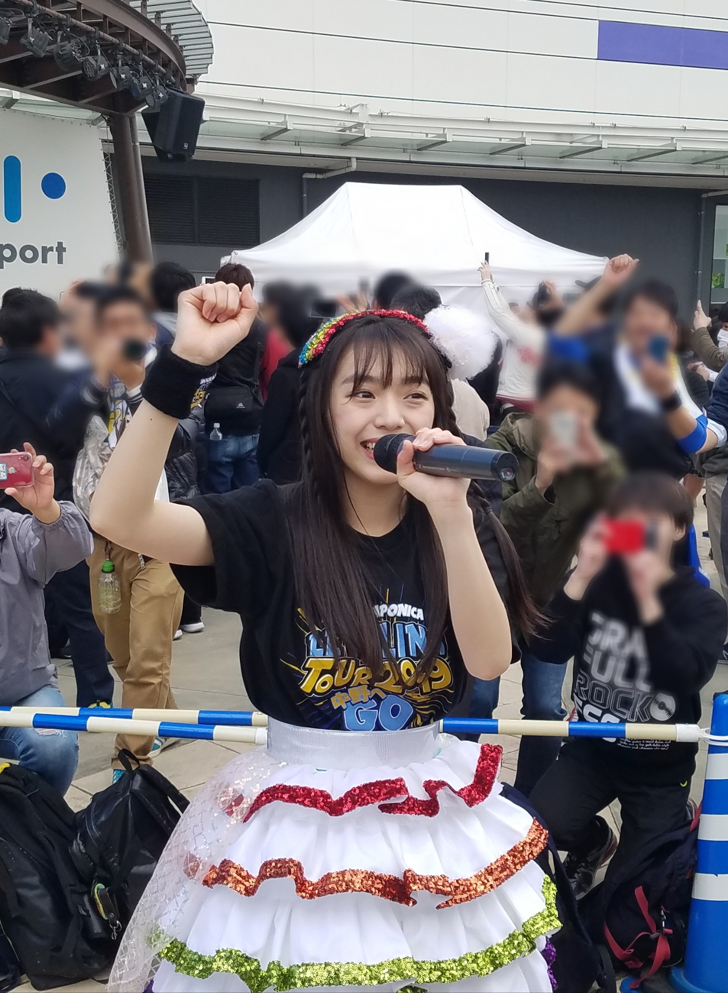 Naito Luna in the event "Leveling Tour (Extra Edition)" @Lalaport Fujimi 21/3/2019